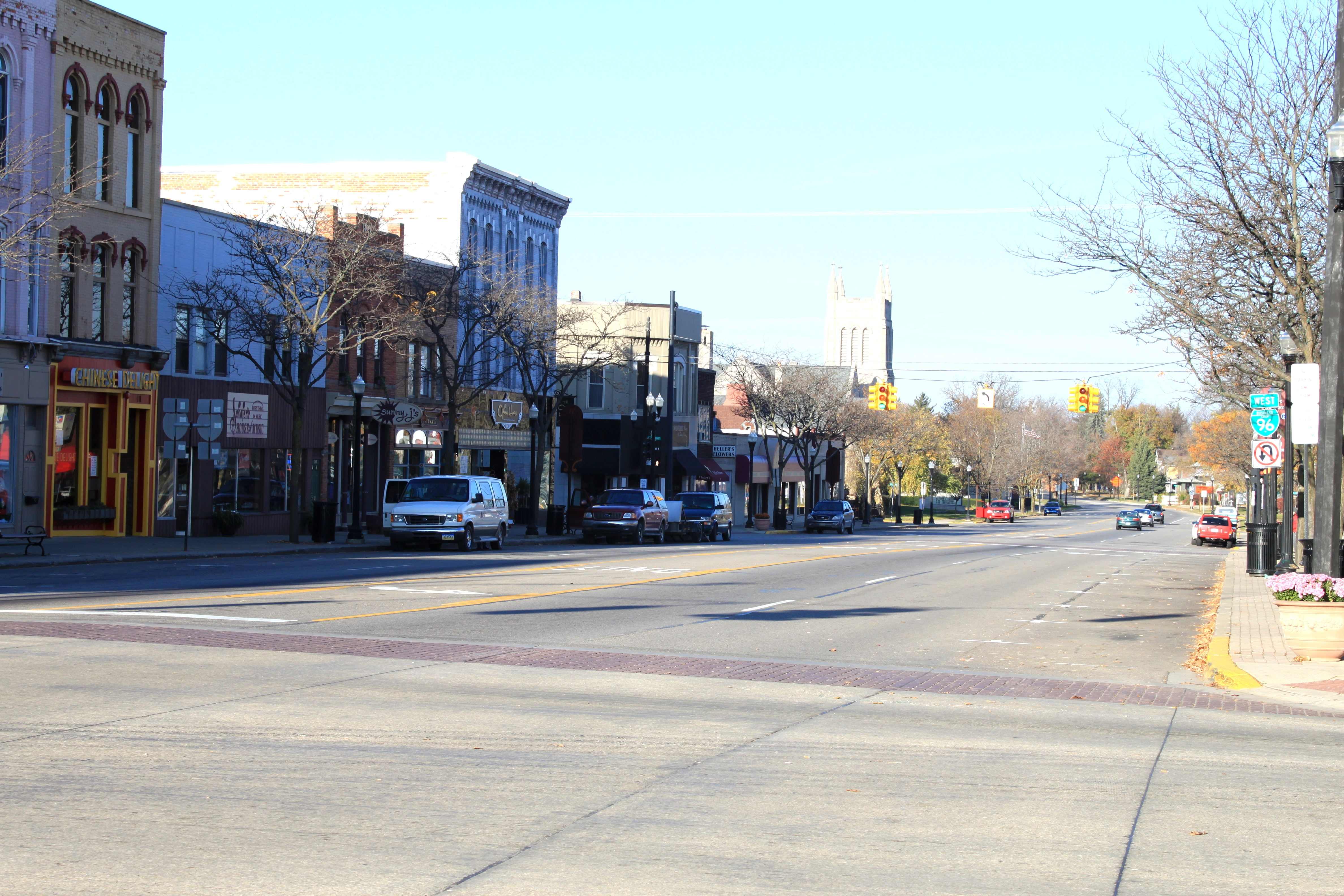 Downtown Howell Michigan, Grand River Avenue facing west at Michigan Avenue.